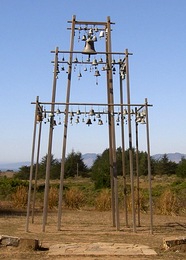 Children's Bell Tower in Bodega Bay, California